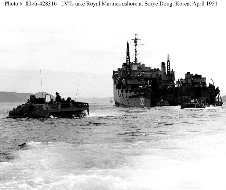 LVTs embarking British Royal Marine commandos leave USS Fort Marion (LSD-22) for the beach at Sorye Dong, North Korea, on 7 April 1951. The commandos blew up about 100 yards of railroad, in an effort to interdict enemy logistics, and were then successfully reembarked. US Navy photo # 428316, now in the collections of the National Archives